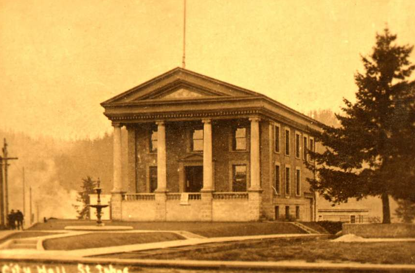 St. Johns, Oregon City Hall after its completion in the mid 1900s.